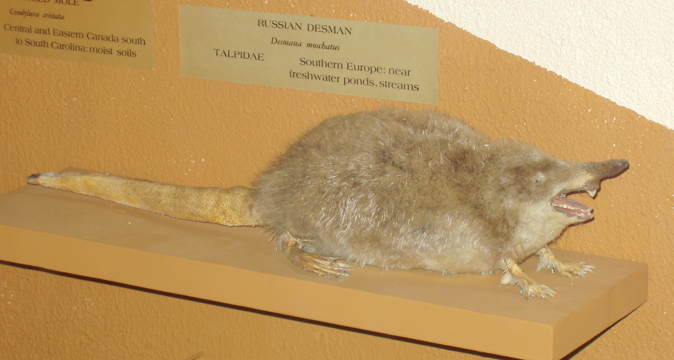 Desmana moschata (Harvard University)